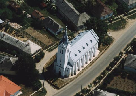 Jánd, temple, Hungary, aerialphotography